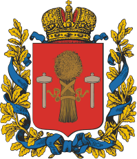 Radom gubernia (Russian empire), coat of arms